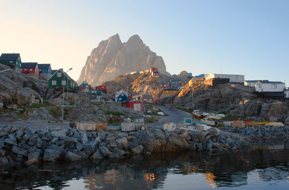 Part of Uummannaq village, with Uummannaq mountain (the word means "the heart-shaped") in the background